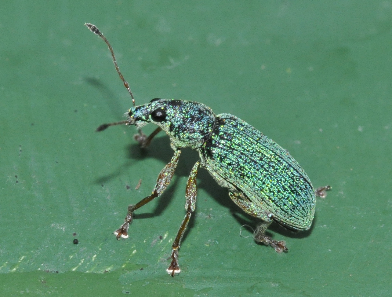 Polydrusus formosus (Mayer, 1779). Germany: S Bayern, Landkreis Bad Tölz, Walchensee, Zwergern peninsula, 810 m.